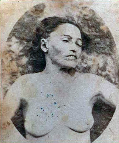 Michelina Di Cesare photographed after her killing